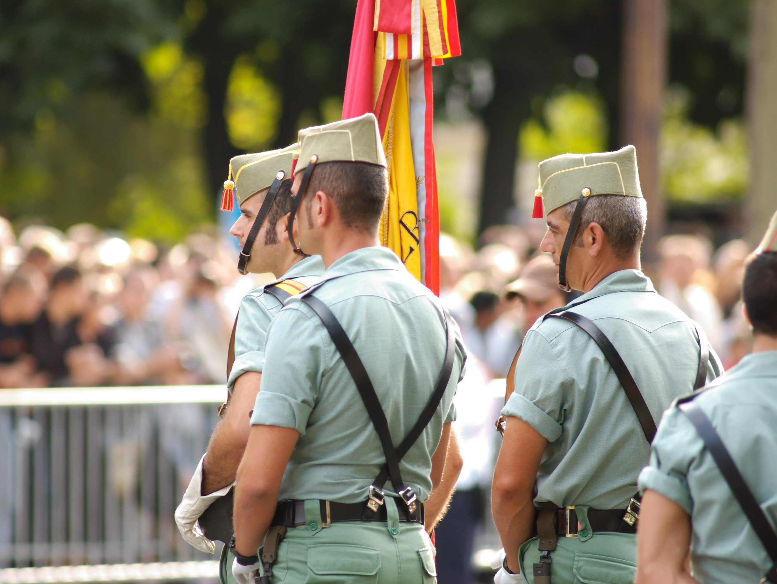 Soldiers of the Spanish Legion before the military parade on the Champs-Élysées. Ceremonies of Bastille Day 2007.